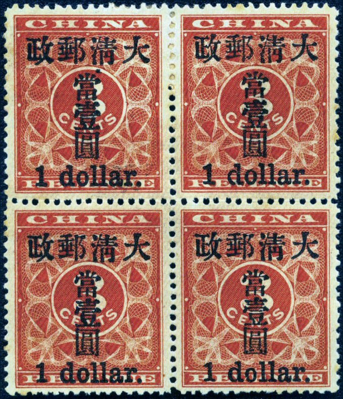 smallone